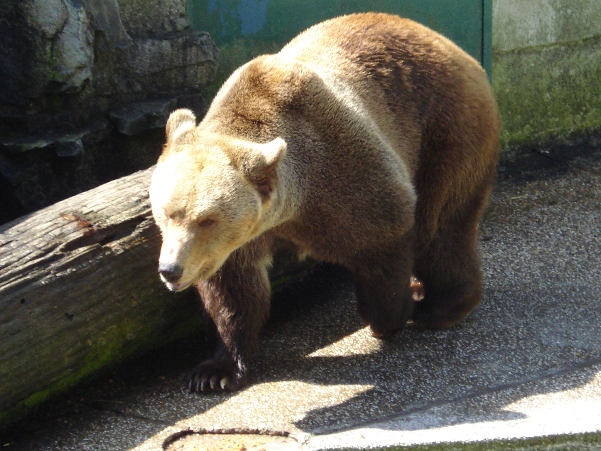 Brown bear in Zagreb Zoo (april 2012)